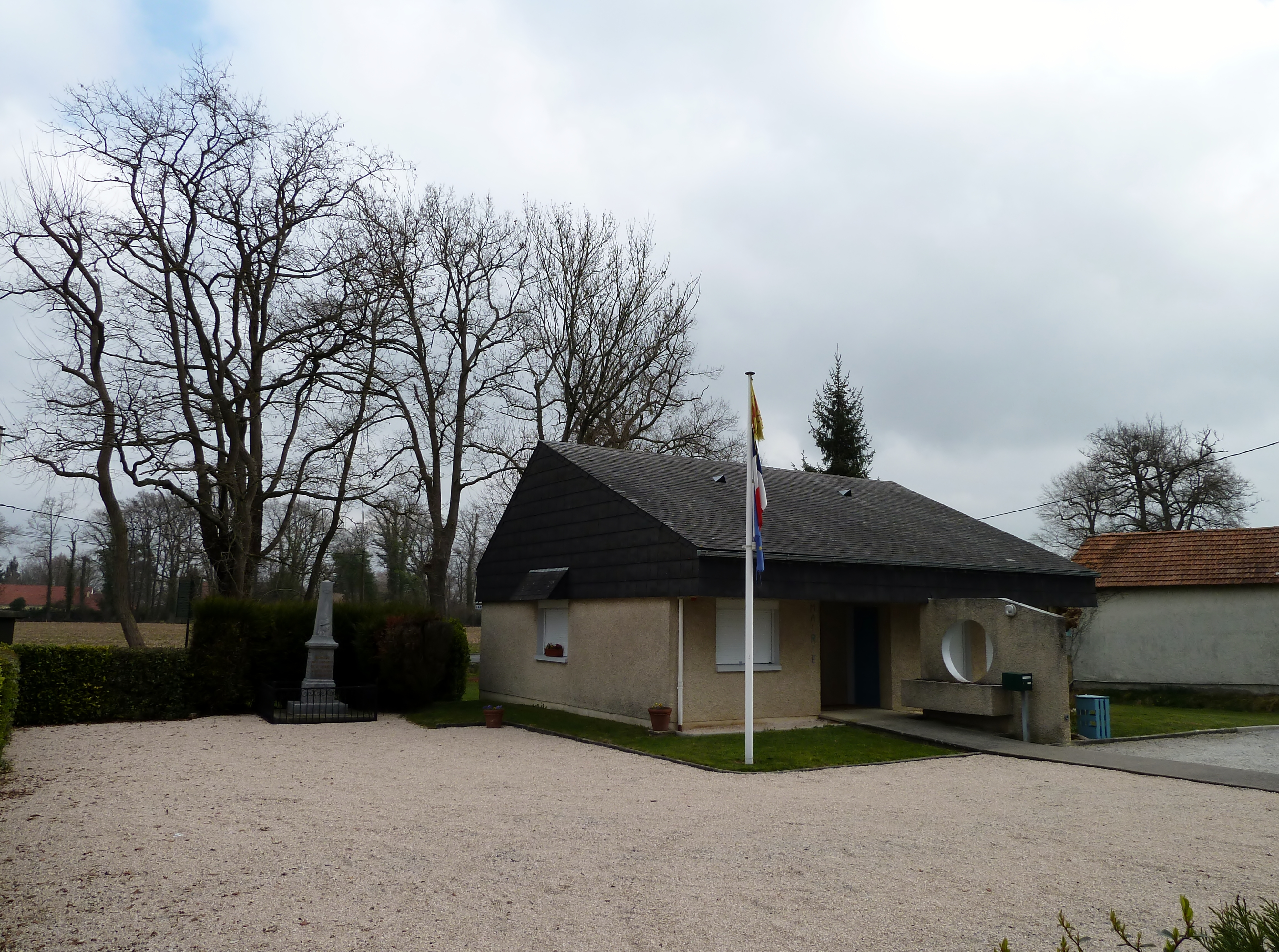 Saint - Jammes city hall